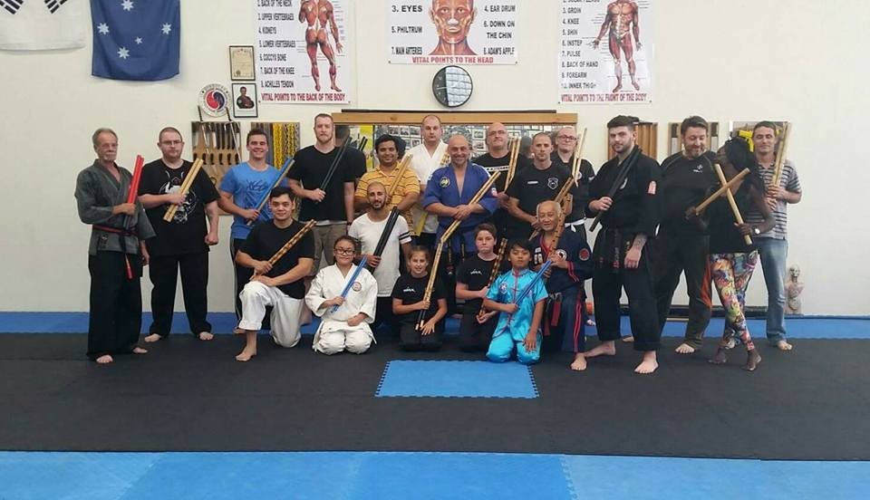 Kali stick seminar by Terry Lim and Maurice Novoa Ruiz at Marcos Dorta's Essential Defence Academy in Melbourne Australia